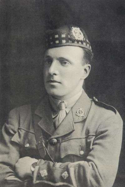 Portrait of Captain Chavasse. "Out of copyright."